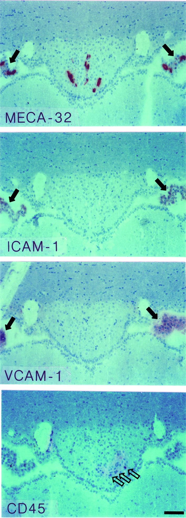 Immunohistology of the subfornical organ (SFO) in the healthy SJL mouse. The top panel shows MECA-32+ capillaries within the SFO. Panels below demonstrate that ICAM-1 and VCAM-1 can not be detected on the MECA-32+ capillaries within the SFO. Single CD45+ perivascular cells can be detected within the SFO (open arrows, lower panel). Note the positive immunostaining for MECA-32 on choroid plexus capillaires and for ICAM-1 and VCAM-1 on the choroid plexus epithelium visible at the left and right margins (closed arrows). Immunoperoxidase, hematoxylin counterstain. Bar = 100 μm. This result was observed 10 times.